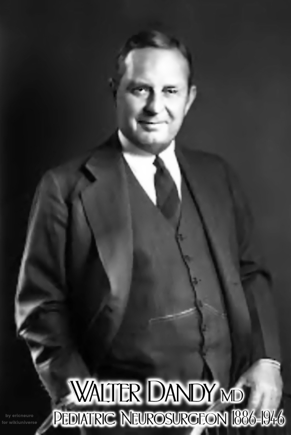 Walter Dandy was neurosurgeon and scientist. Dandy was an important inventor, innovator and disseminator of hundreds of new and effective practices in neurosurgery, despite death at a young and productive age, contributed in an intense and definitive way to modern neurosurgery. Creator of pneumoventriculography, pediatric intensive care, Dandy Walker syndrome, clipping for aneurysms and craniotomy methods. First neurosurgeon considered a true scientist since he defended, used, created and disseminated the concepts of evidence-based medicine and scientific method of Popper, mainly the inrefutability and importance of falsifiability.